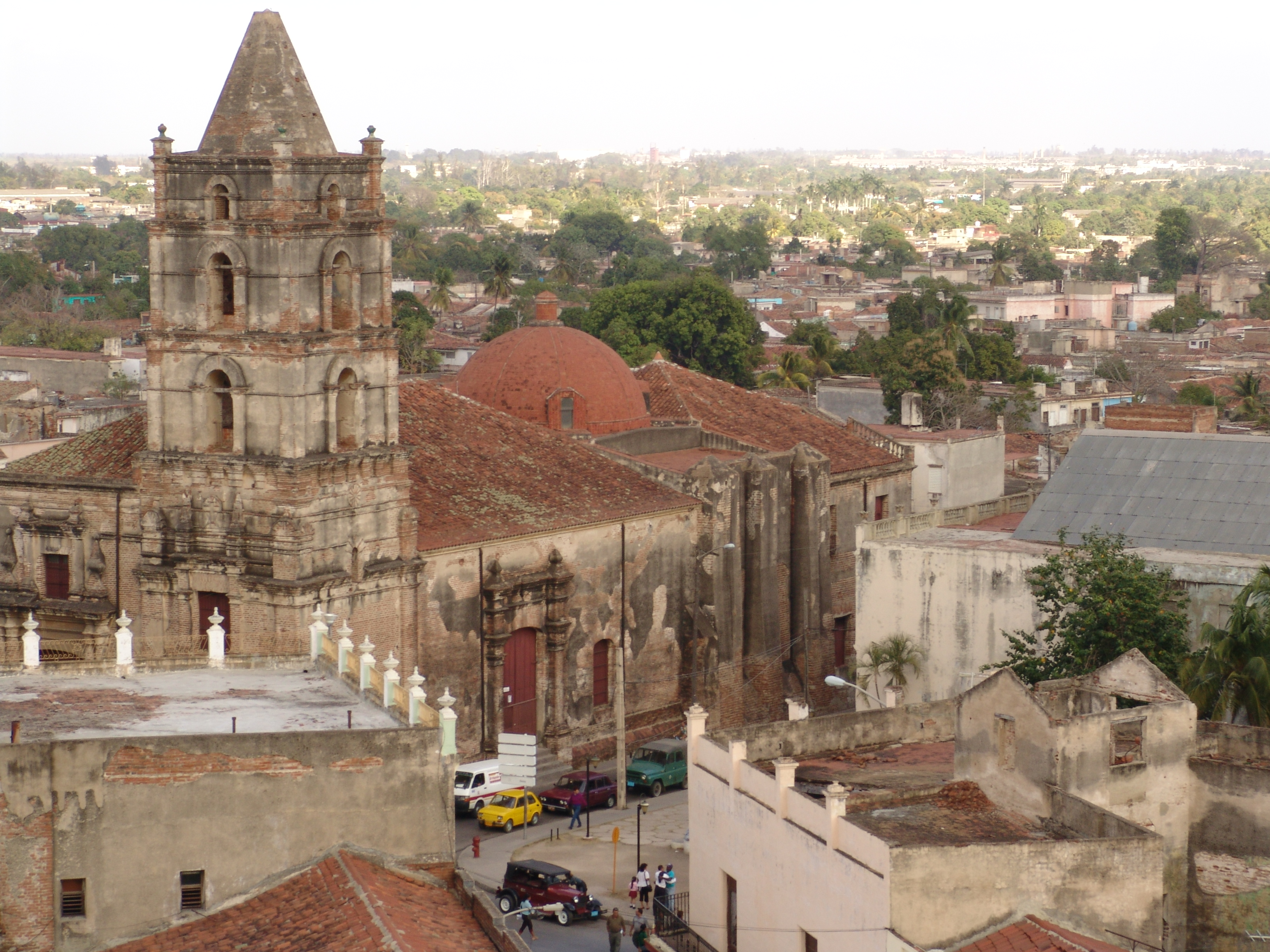 Iglesia de Nuestra Señora de la Soledad in Camagüey, Cuba. The church has had a major makeover since, as part of the city's attempt to win World Heritage status.